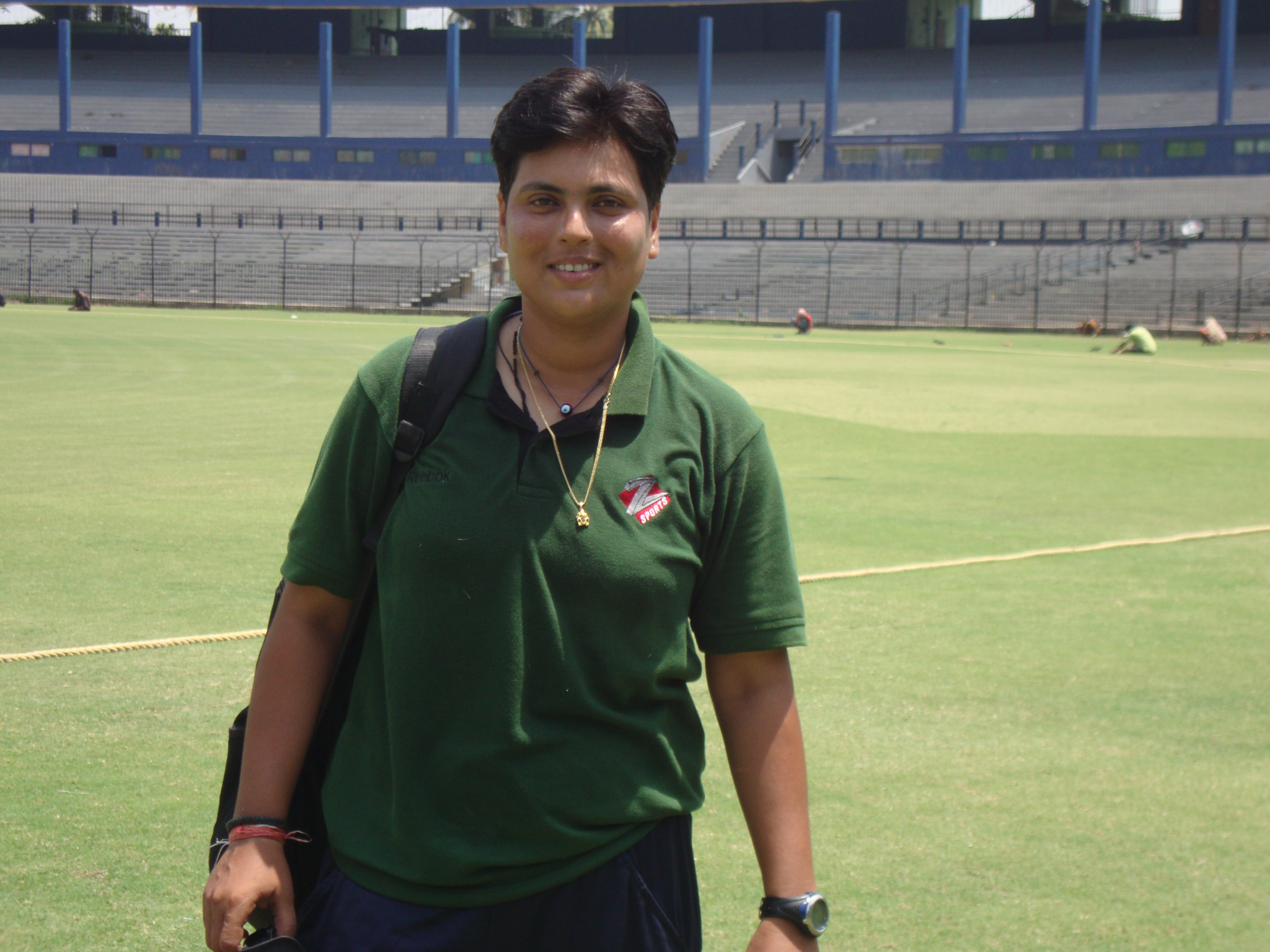 Photo on Ground.